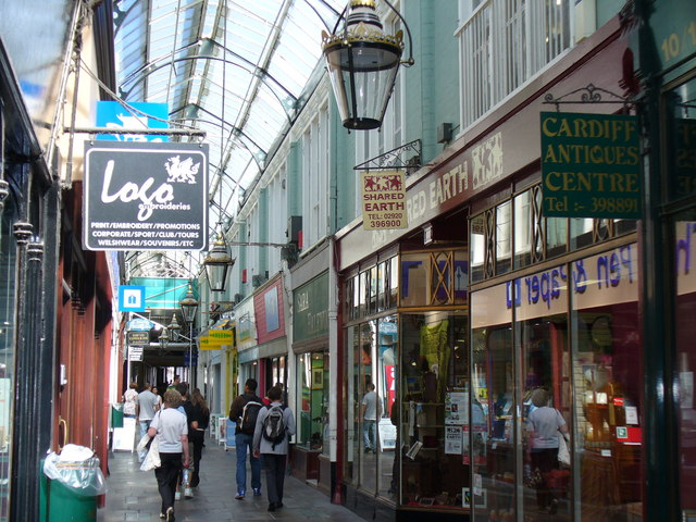 Royal Arcade One of Cardiff's collection of Victorian and Edwardian arched, glass-roofed, shopping arcades off St Mary Street. It contains a mix of old and new for sale.